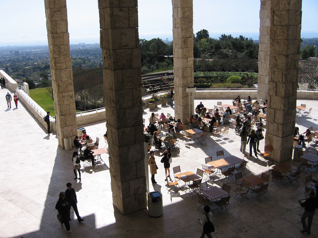 getty center, LA